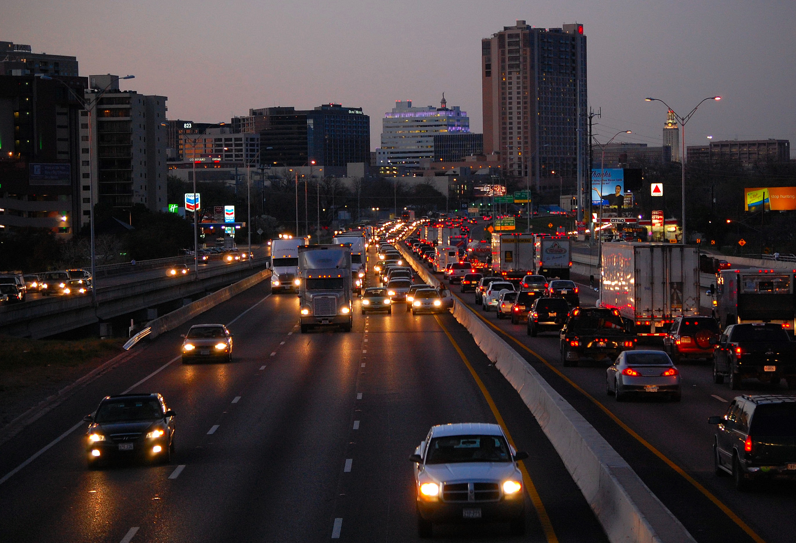 Austin skyline and Interstate 35 at dusk